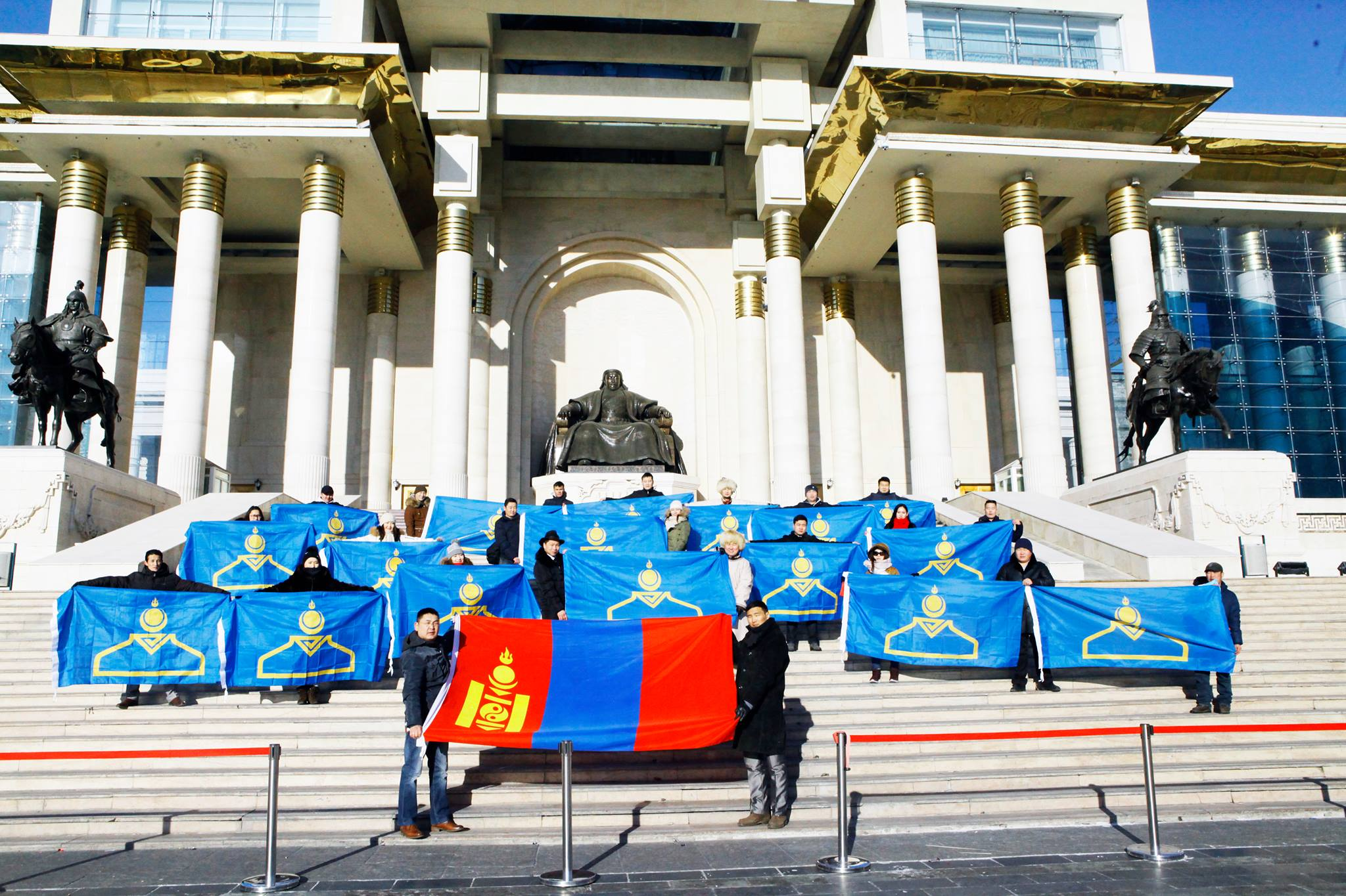 Монгол Туургатан Төв Холбоо